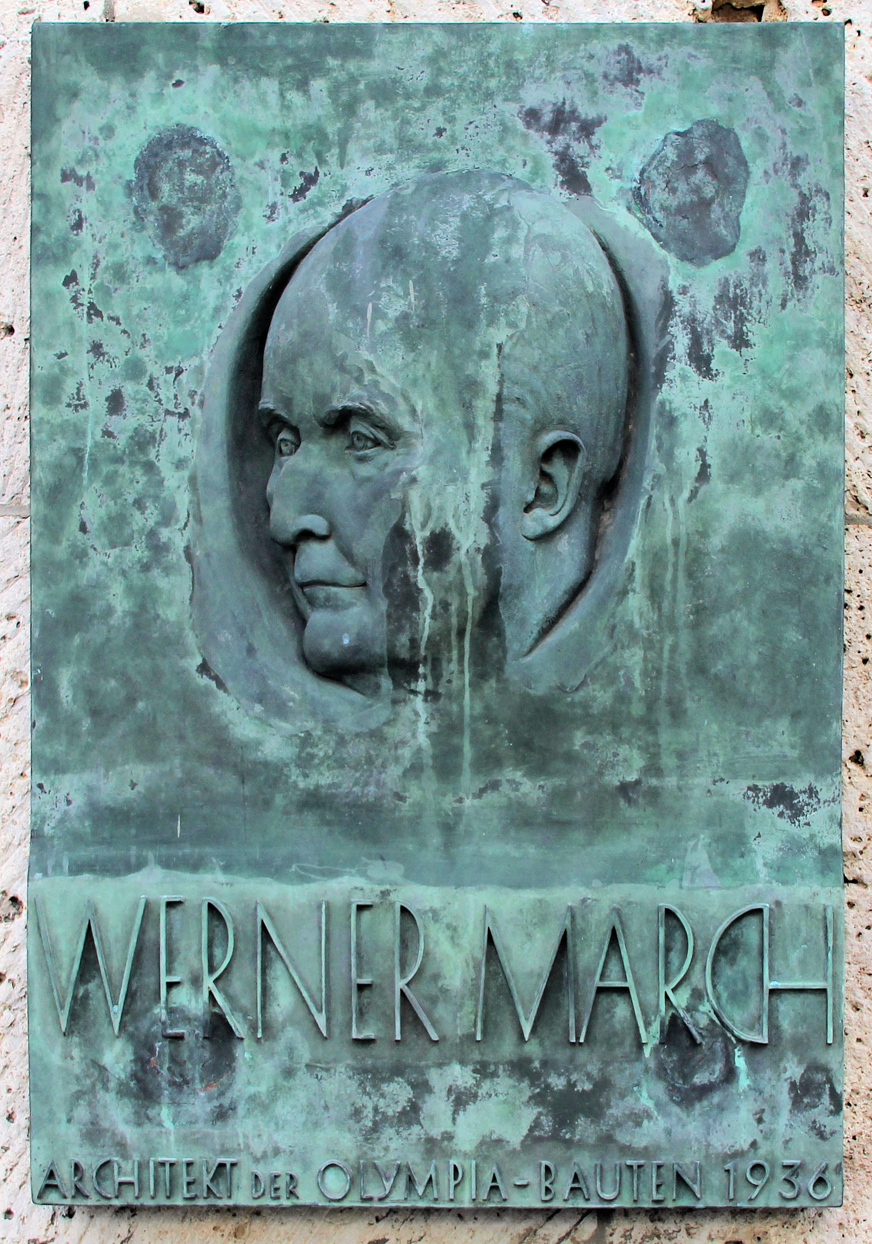 Memorial plaque, Werner March, Olympischer Platz 4, Berlin-Westend, Germany Koordinate:52°30′54″N 13°14′34″E / 52.515°N 13.24278°E